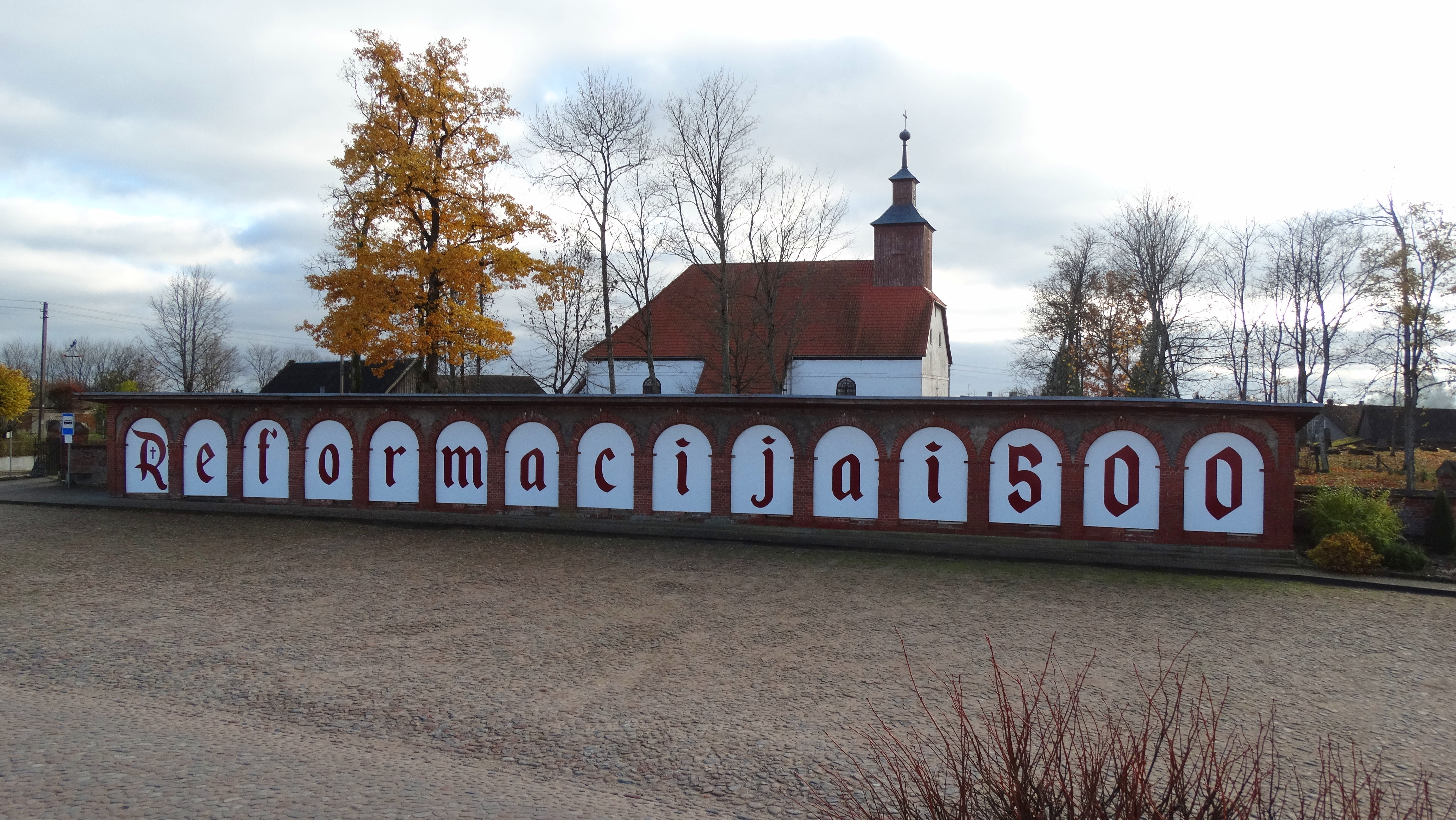 Reformation 500th Anniversary, Katyčiai, Šilutė district, Lithuania